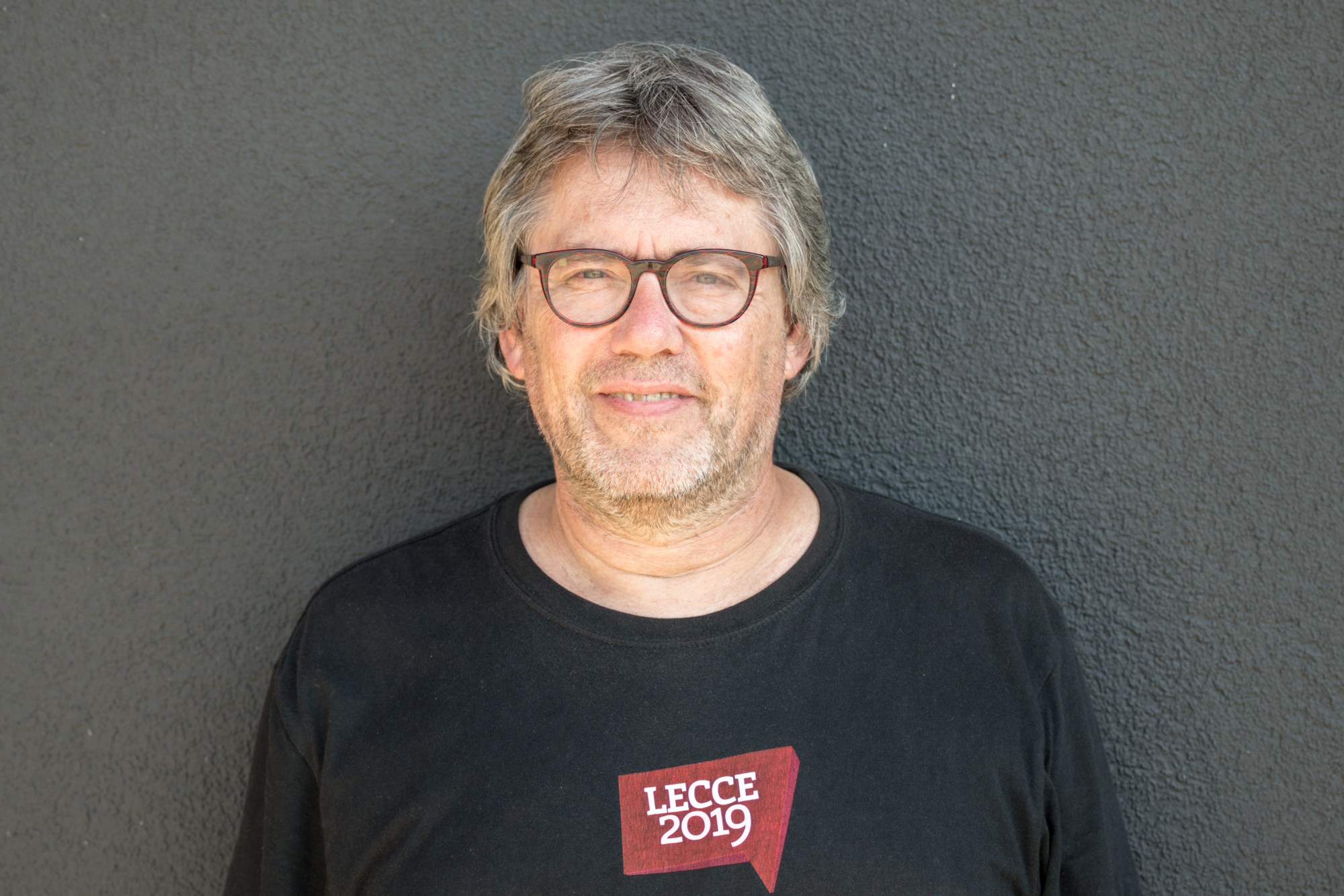 Airan Berg at the 'Festival der Regionen 2019', Perg - Austria